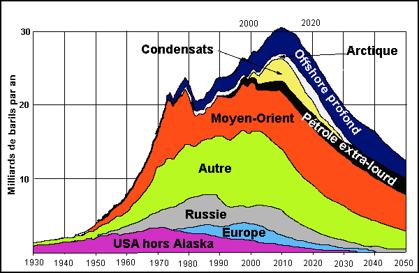 french version of Image:GlobalPeakOilForecast.jpg